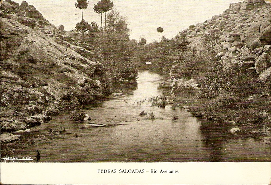 Pedras Salgadas - Rio Avelames